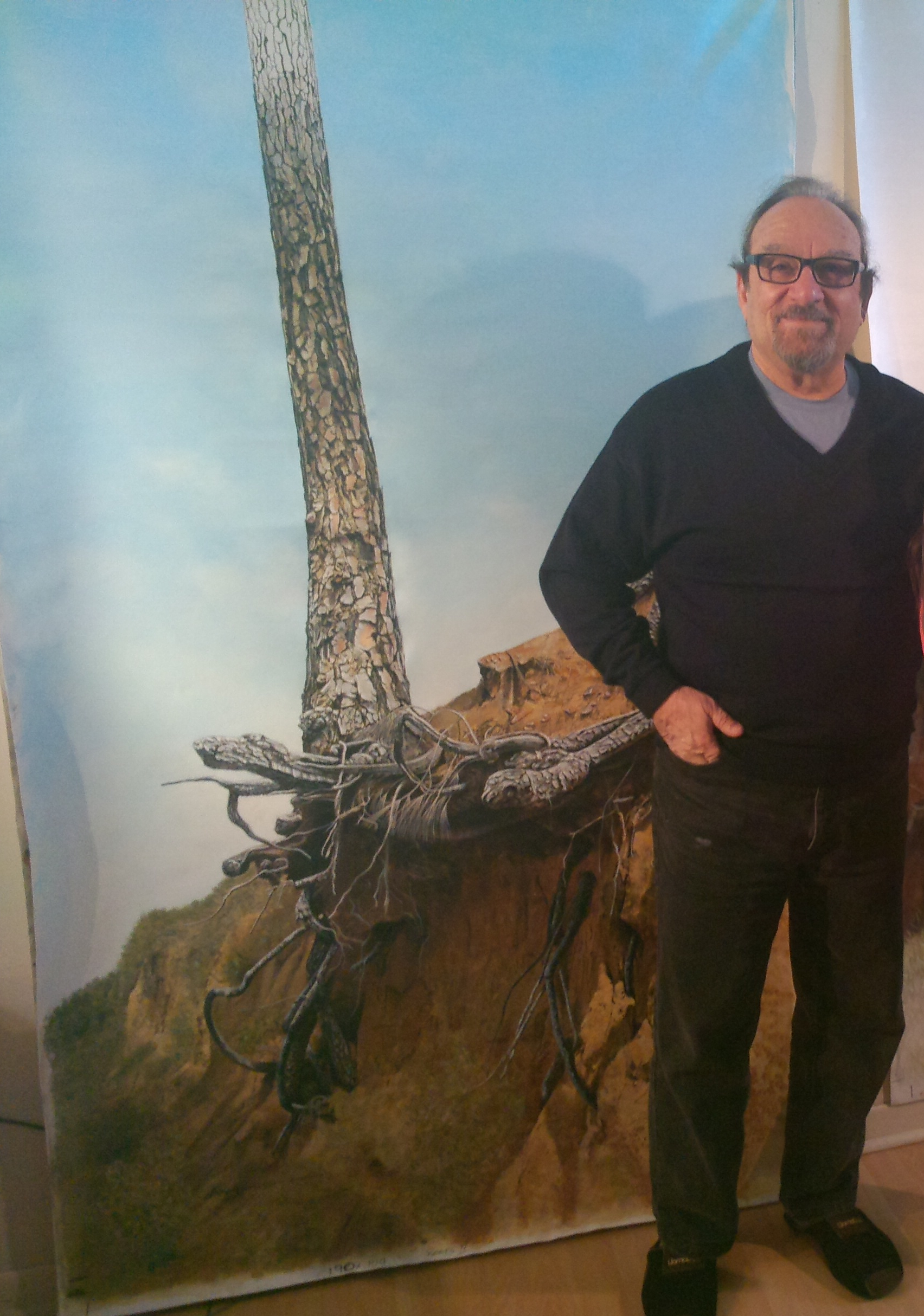 Krikor Agopian artistic painter with one of his works.